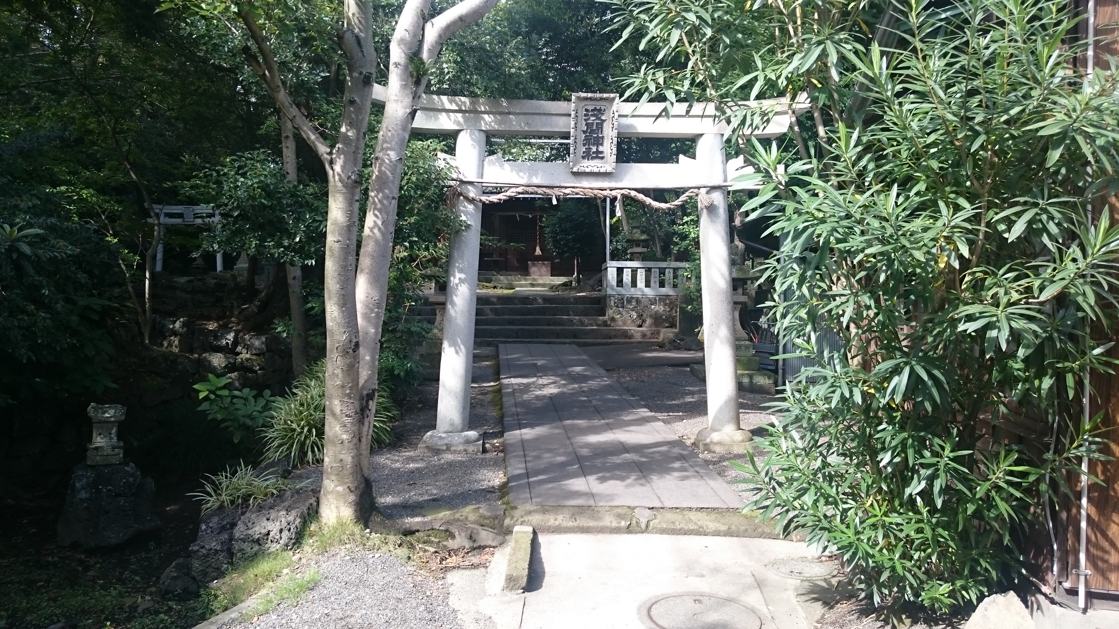 Sengen Shrine (Mishima)